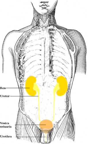 Position of organs of the urinary tract (Kidney, Ureter, Urinary bladder, Urethra)